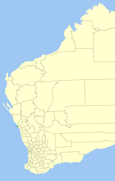 Description=Location of the Local Government Area in Western Australia